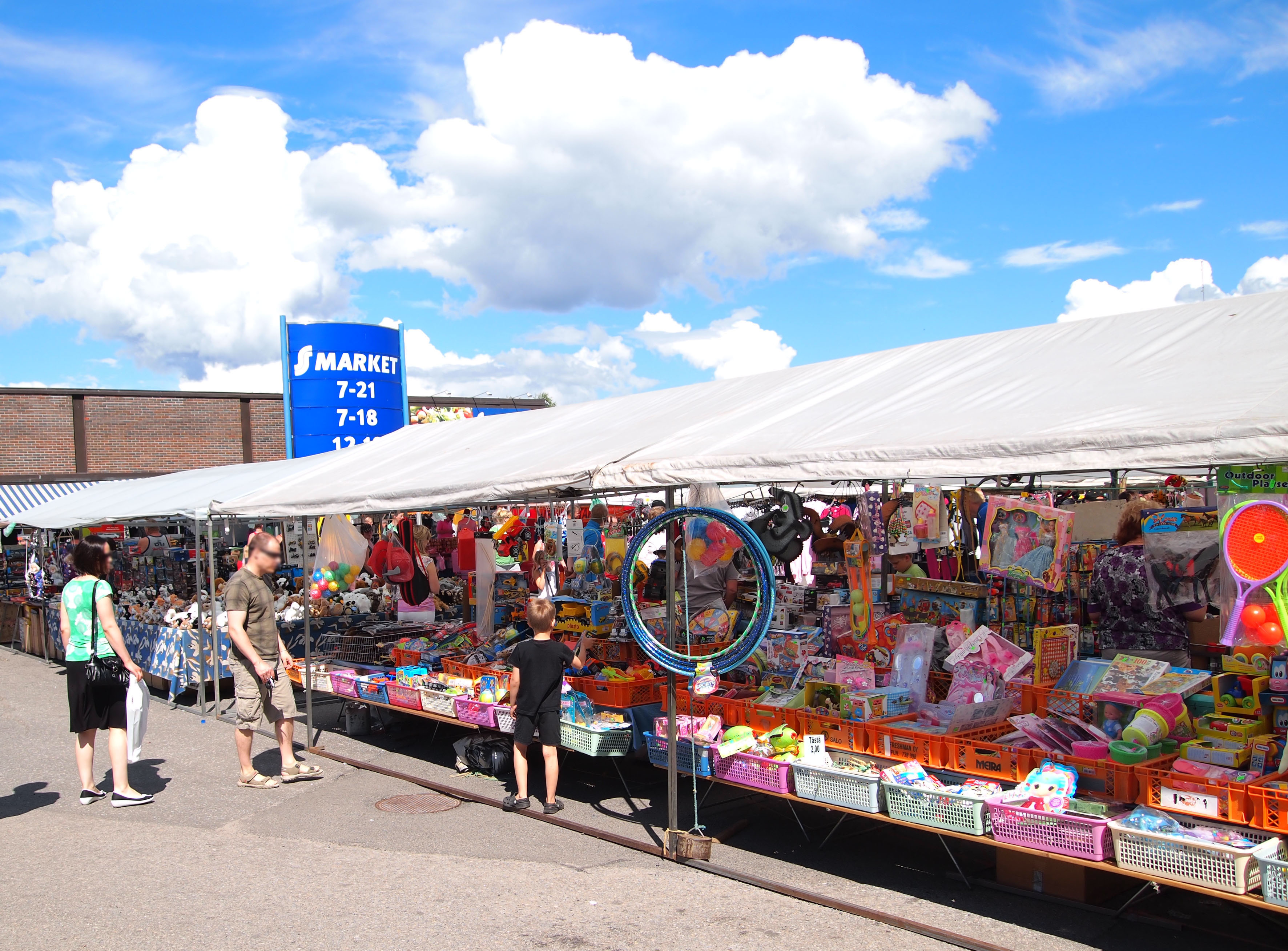 Toys in Fairs of Muurame 2013.